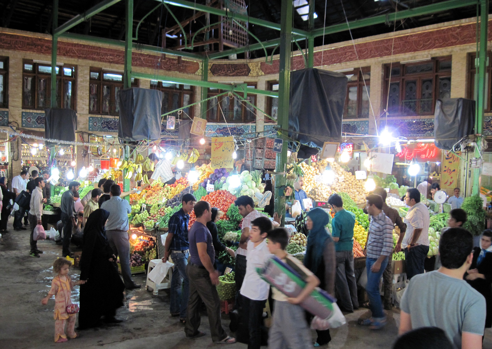 Tehran - Tajrish - Bazaar